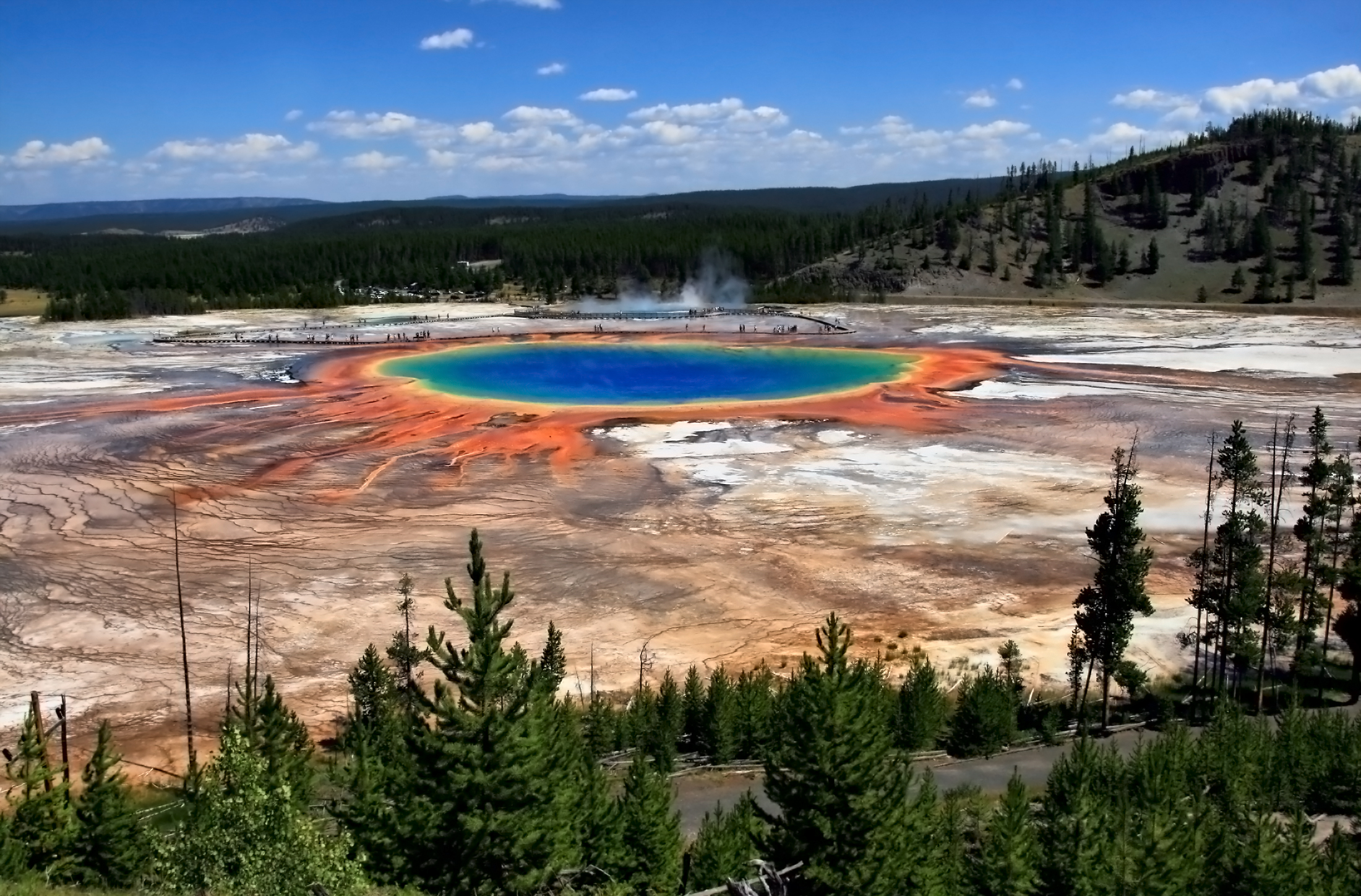 Grand Prismatic Spring at Midway Geyser Basin Yellowstone National Park